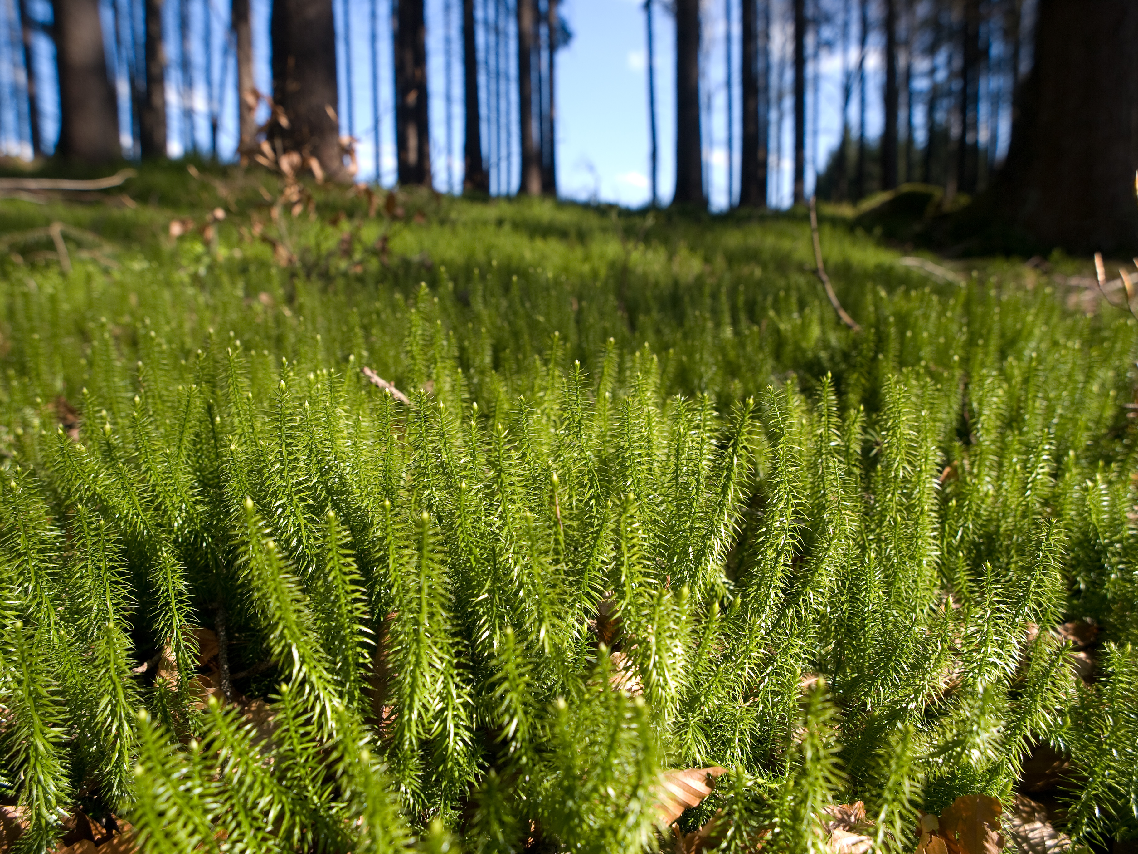 Sprossender Bärlapp Lycopodium annotinum Picture taken in Bavaria